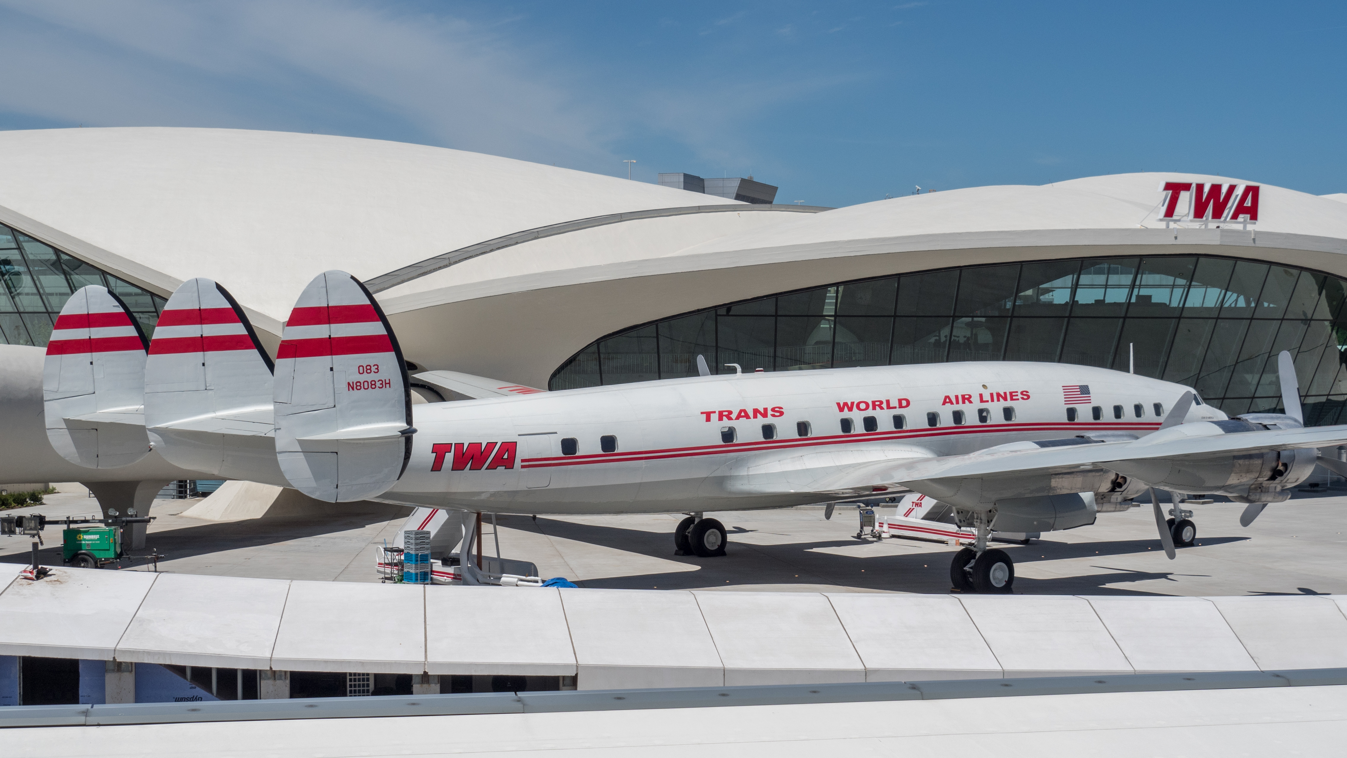 "Connie" Starliner Airplane at TWA Hotel JFK Airport, New York City